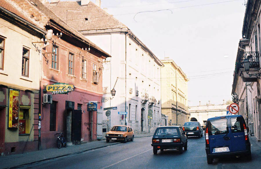 Image of Petrovaradin (self made) Category:Novi Sad images